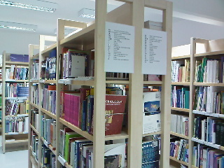 Knjižne omare